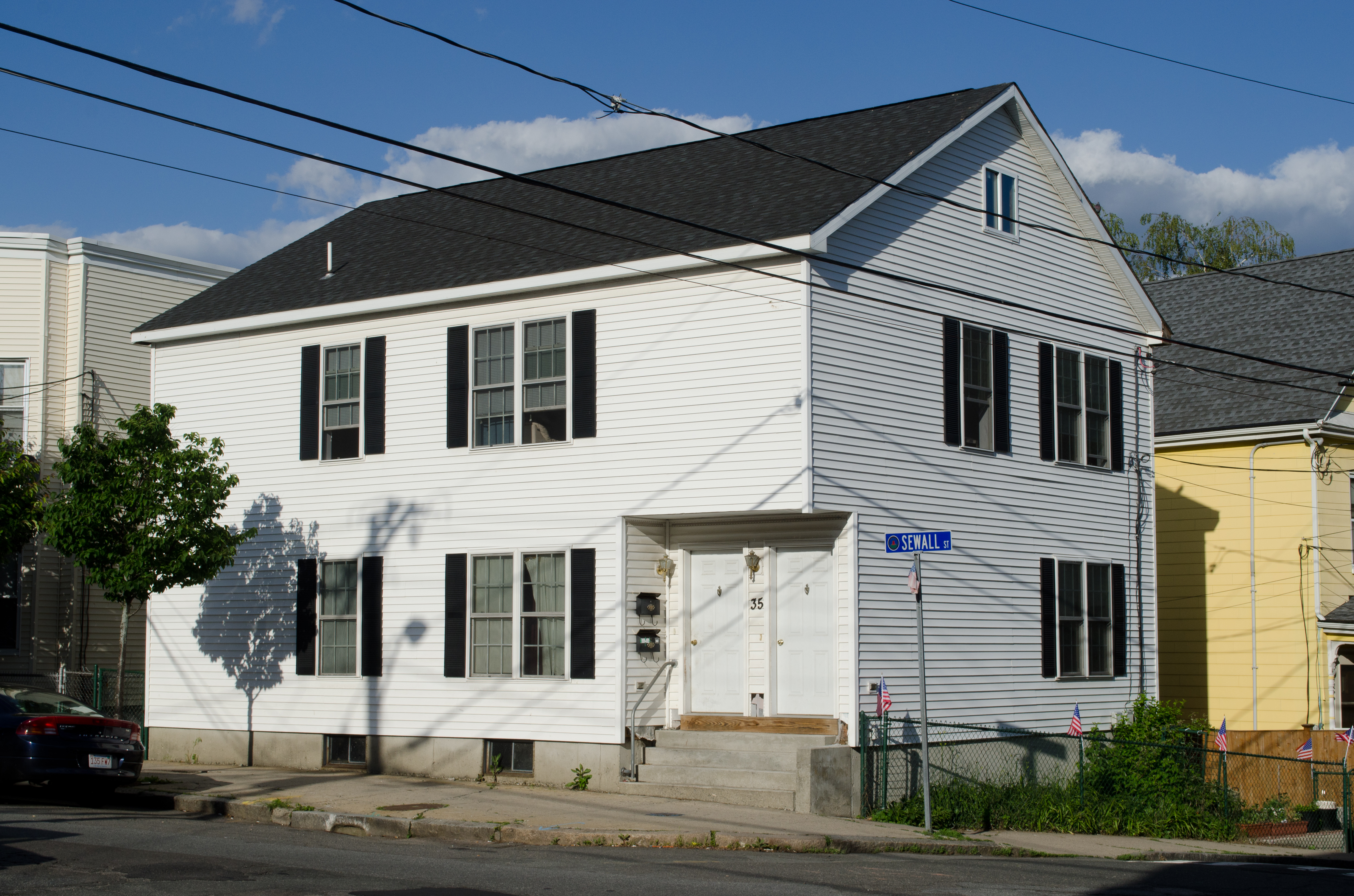 House at 35 Temple Street, Somerville, Massachusetts, a building on the National Register of Historic Places.